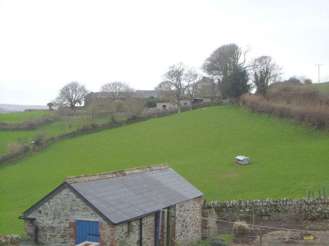 Scoble from the east. The complex of buildings at Scoble, also seen in 174289, straddles a gridline. The main farmhouse beside the lane on the right lies in SX7639. Seen here from near the end of the public road, with an outbuilding at Scoble Cottages in the foreground.